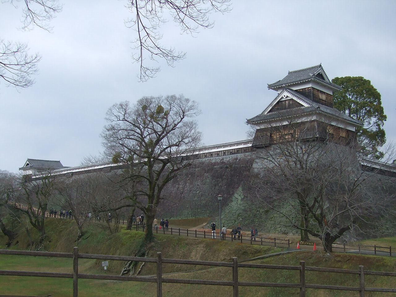 A view of Kumamoto Castle Hitsujisaruyagura and Mototaikoyagura from near Ninomaru parking lot, Ninomaru, Chuo Ward, Kumamoto City, Kumamoto, Japan.